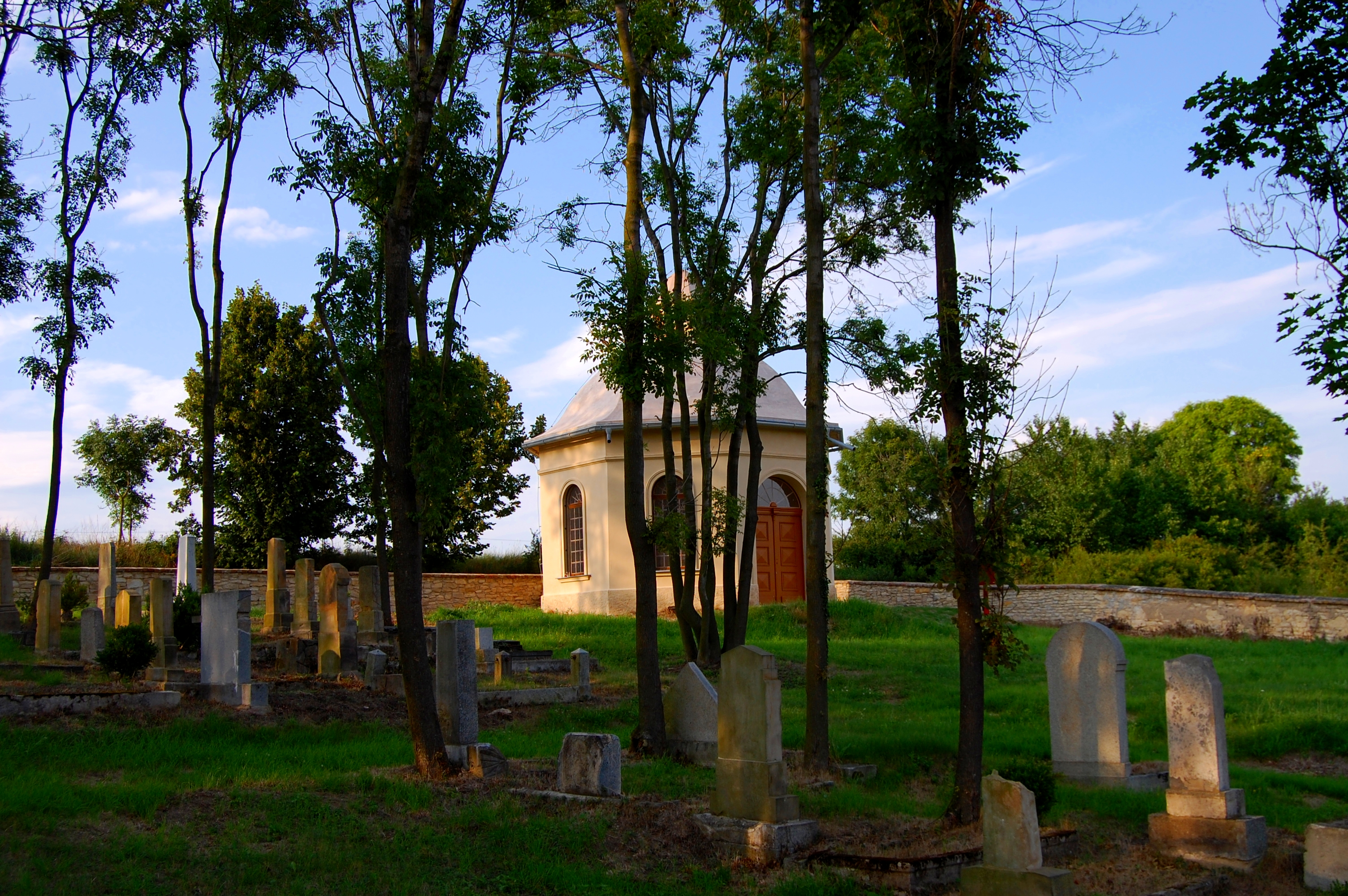 Jewish cemetery in Radouň, Czech Republic